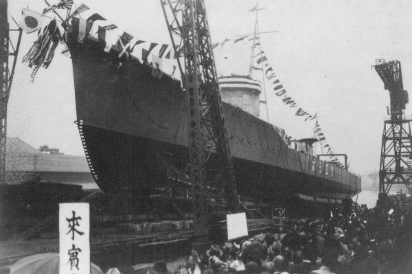 Imperial Japanese Navy Destroyer Kuroshio (Kagero-class) launching at Fujinagata Shipyard, Osaka, Japan.